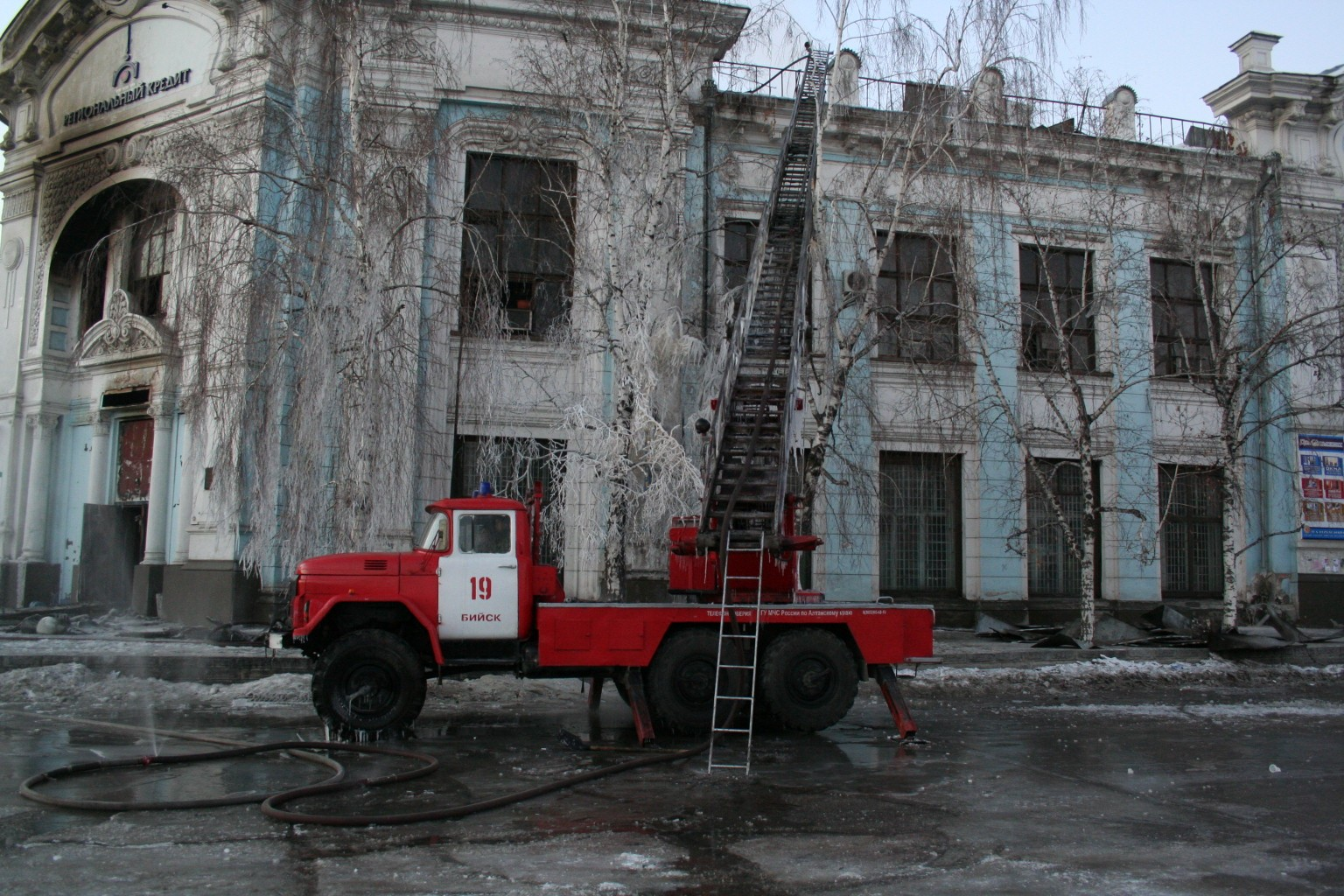 Fire engine AL-32 on ZIL-131 truck